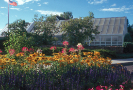 Cheyenne Botanic Gardens solar heated and powered conservatory greenhouse. Photo by Shane Smith